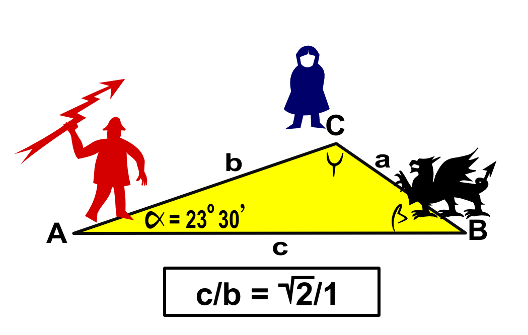 One of the basic Slavic ritual triangles, found in acheology of Slavic cult objects. Described in Pleterski, Andrej (1996). Strukture tridelne ideologije v prostoru pri Slovanih. Zgodovinski časopis 50, št. 2; Pleterski, Andrej, Mareš, Jiří J. (2003): Astronomske osnove nekaterih zgodnjesrednjeveških kultnih točk v Pragi. In: Studia Mythologica Slavica, VI, 2003.